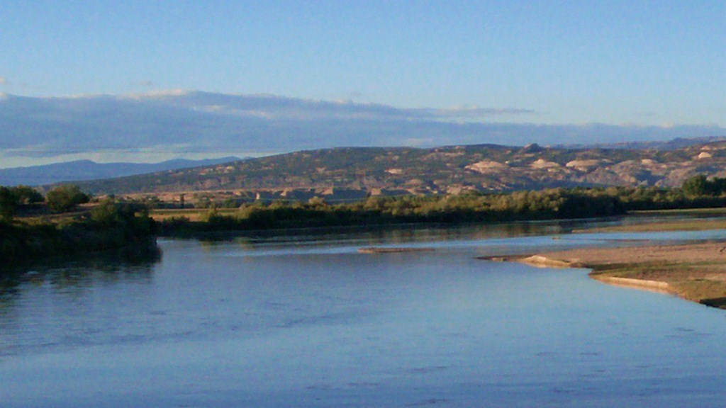 The Green River in eastern Utah by David Jolley September 2007.